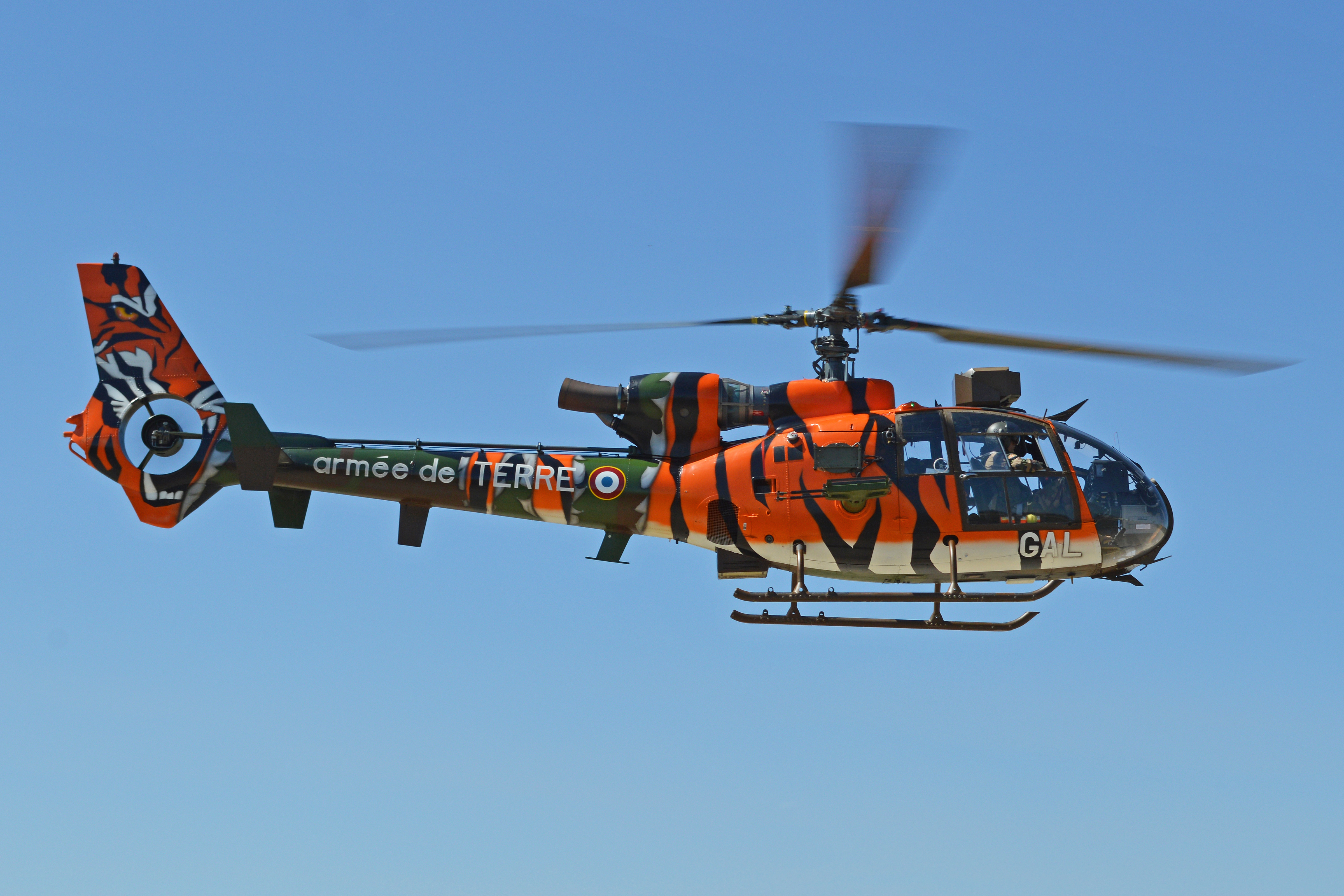 c/n 1862. Callsign F-MGAL. Operated by 3 Régiment d'Hélicoptères de Combat (RHC), French Army, based at Etain/Rouvres. Seen during the 2016 NATO Tiger Meet (NTM) held at Zaragoza Air Base, Spain. 20th May 2016